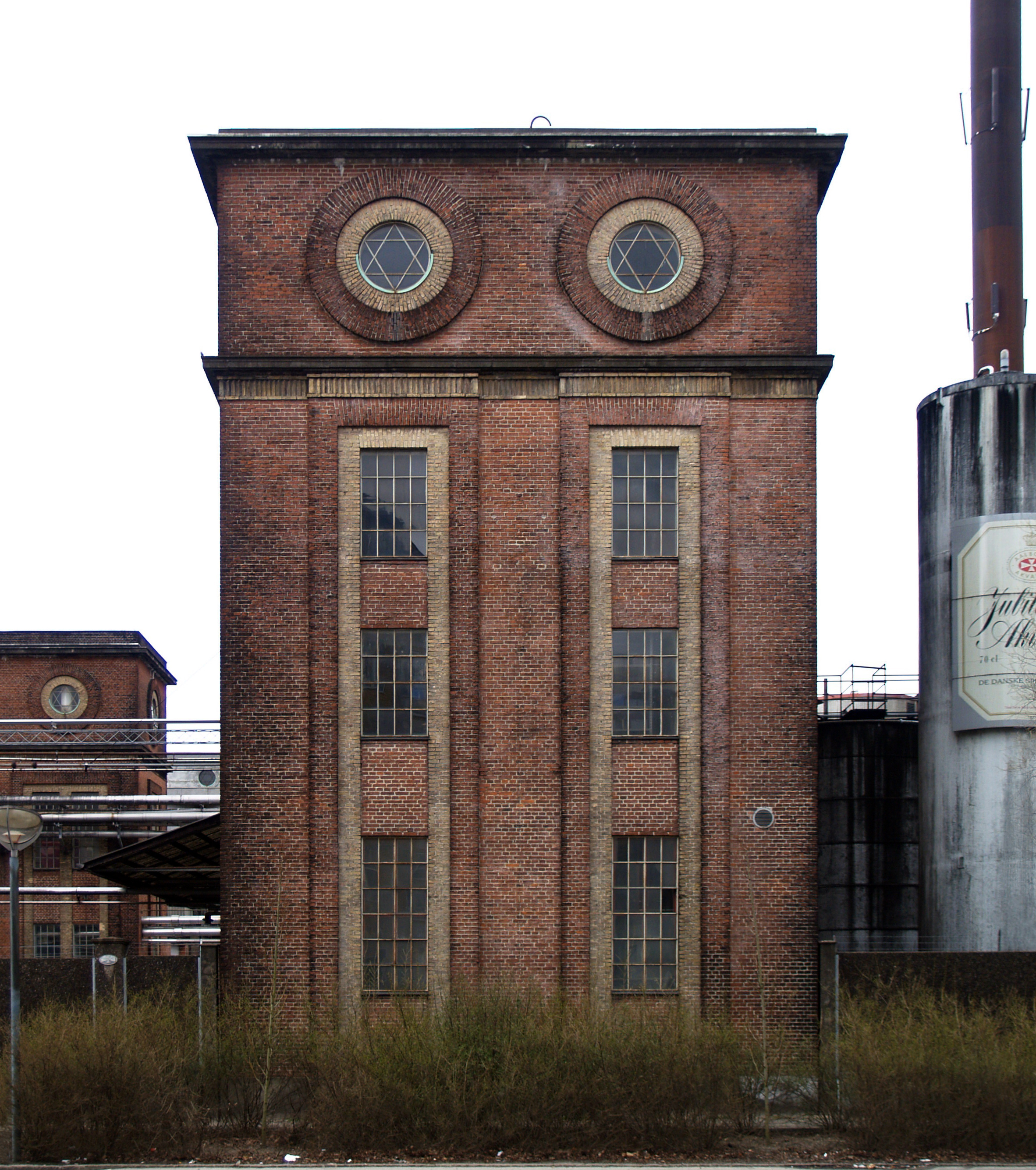 de danske spritfabrikker, 1929-1931. architect: alfred cock-clausen. those round windows make the building look a bit like an owl with a hangover.